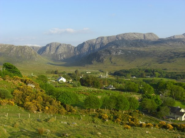 The Poisoned Glen in County Donegal